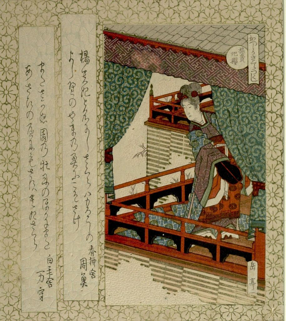 Yang Guifei (Yôkihi) Viewing Cherry Blossoms from Verandah, from the series Cherry Trees for the Katsushika Circle, with poems by Shunrûtei Chikauo (Kaneuo) and Hakumôsha Kazumori (Banshu, Manshu), Edo period, circa 1823 Transliterated Title: Katsushika sakura zukushi: Yôkihi (Yang Guifei) zakura Ukiyo-e woodblock-printed "surimono" in "shikishiban" format; Ink, color and metallic pigment on paper Paper: H. 21.4 cm x W. 18.7 cm (8 7/16 x 7 3/8 in.) Harvard Art Museums/Arthur M. Sackler Museum, Gift of the Friends of Arthur B. Duel, 1933.4.1693